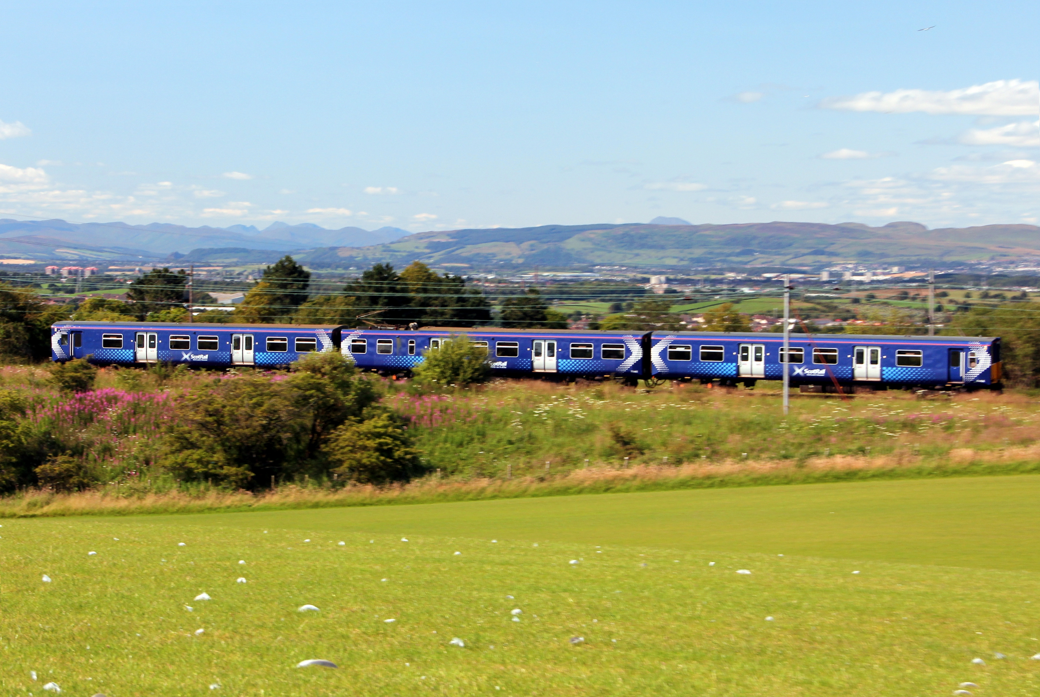 Class 314 - 314212 - passing the site of the never opened Lyoncross railway station with the 16:00 Neilston to Glasgow Central on Saturday 23 July 2011.